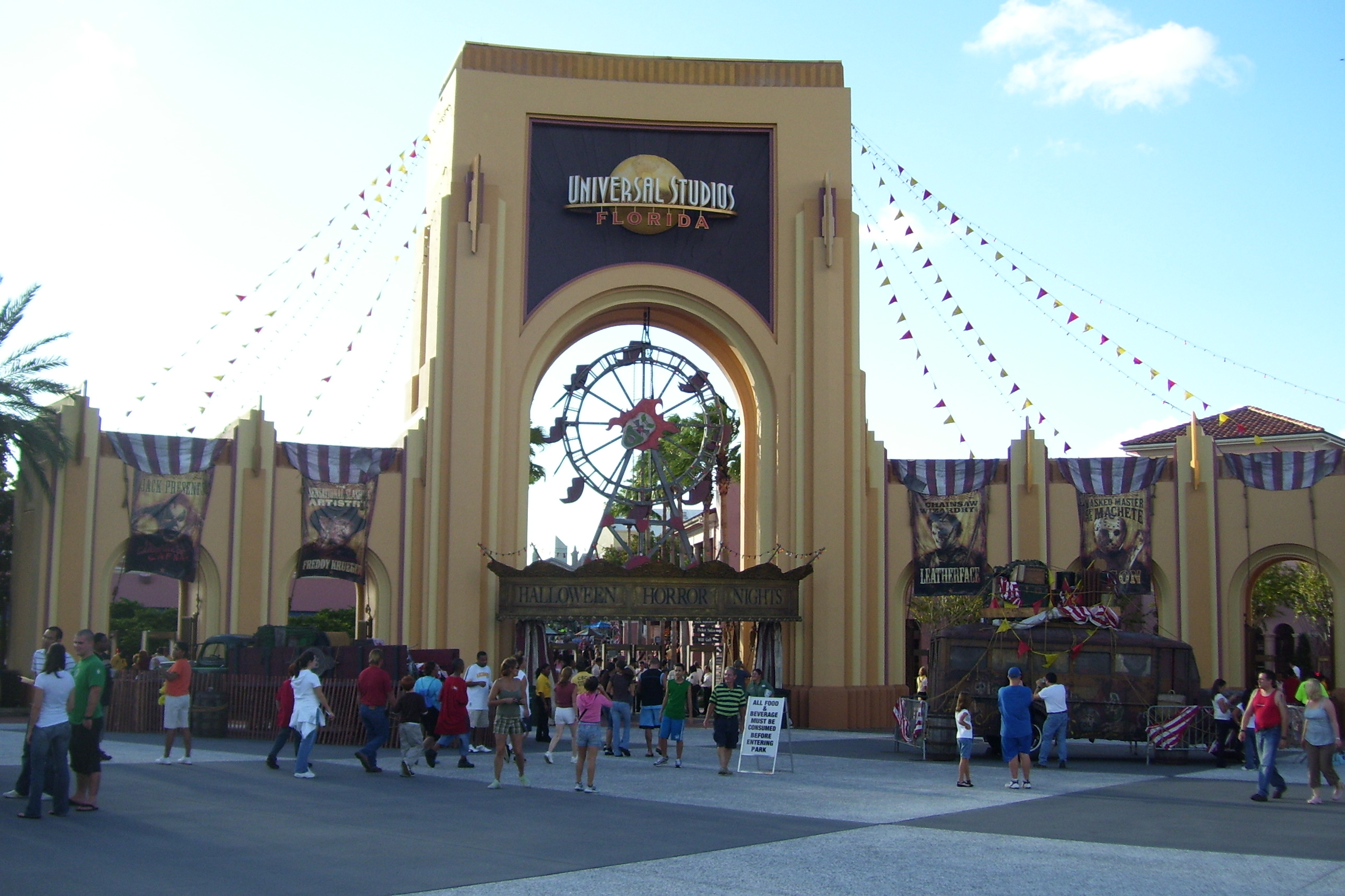 The entrance to Halloween Horror Nights 17 at Universal Studios Florida, taken by me.